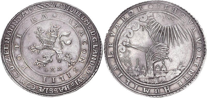 GERMANY, Hessen-Kassel. Wilhelm V. Landgrave, 1627-1637. AR Double Taler (56.85 g, 12h). Kassel mint; Lubertus Haussmann, mintmaster. Dated 1630. WILHELM, • D : G : LANDGRAVI, • HASSIÆ • COM : C : D : Z : ET • N : ANNO : MDCXXXV • in outer legend; FATACON SILIIS POTIORA • in inner legend, crowned lion standing left, front legs outstretched; L X H (mintmaster’s initials) below / IEHOVA VOLENTE HUMILIS LEVABOR •, willow tree being struck by lightning from clouds above, wind and rain blowing from left, radiant hwhy to right; in background, city view of Kassel. Hoffmeister 1013; Davenport 318; KM 154.1. EF, toned.